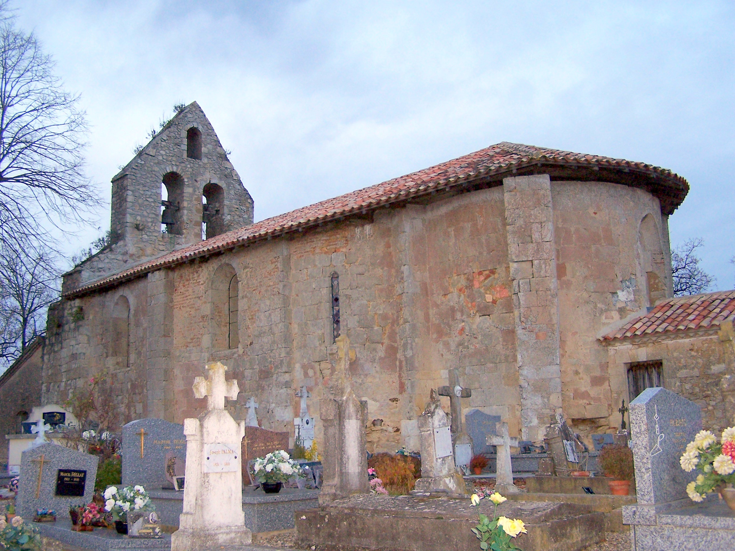 Church of Gouts in Cocumont (Lot-et-Garonne, France)